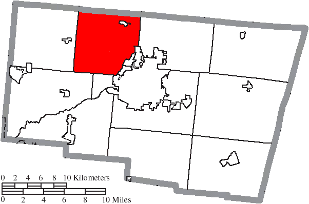 Map of the municipal and township boundaries of Clark County, Ohio, United States, as of the 2000 census, with the location of German Township highlighted. Township borders are shown only in unincorporated areas in order to differentiate incorporated and unincorporated areas more clearly.